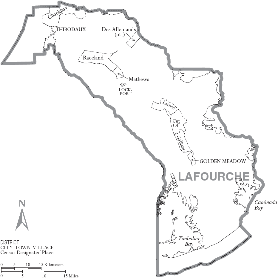 Map of Lafourche Parish, Louisiana, United States with municipal boundaries